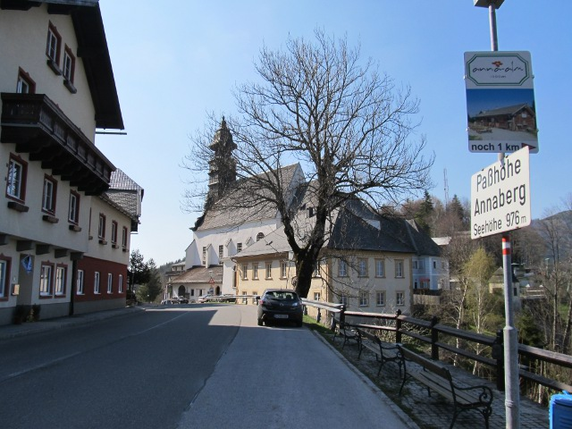 Annaberg pass summit